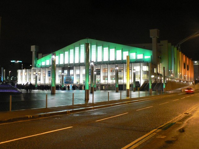 Wembley Arena: floodlit in green The colours of the floodlights were changing every few seconds and the pillars of light on the concourse were changing to match.